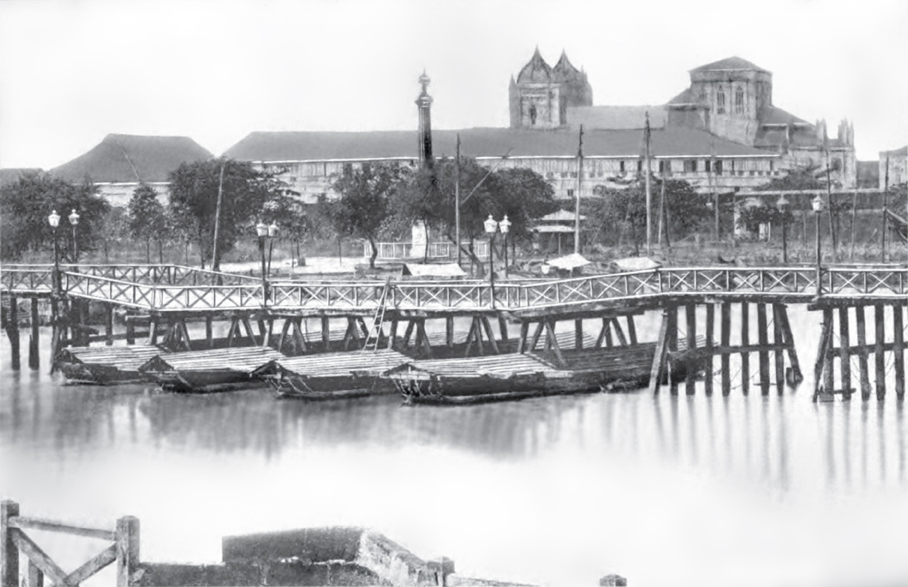 The temporary pontoon bridge that spanned Pasig River in Manila, after the 1863 Earthquake damaged nearby 'Puente Grande' bridge that was being repaired and upgraded to be renamed as the Puente de España. Date of picture is around 1870s, before the 1880 earthquake damaged the Santo Domingo Church in the background.